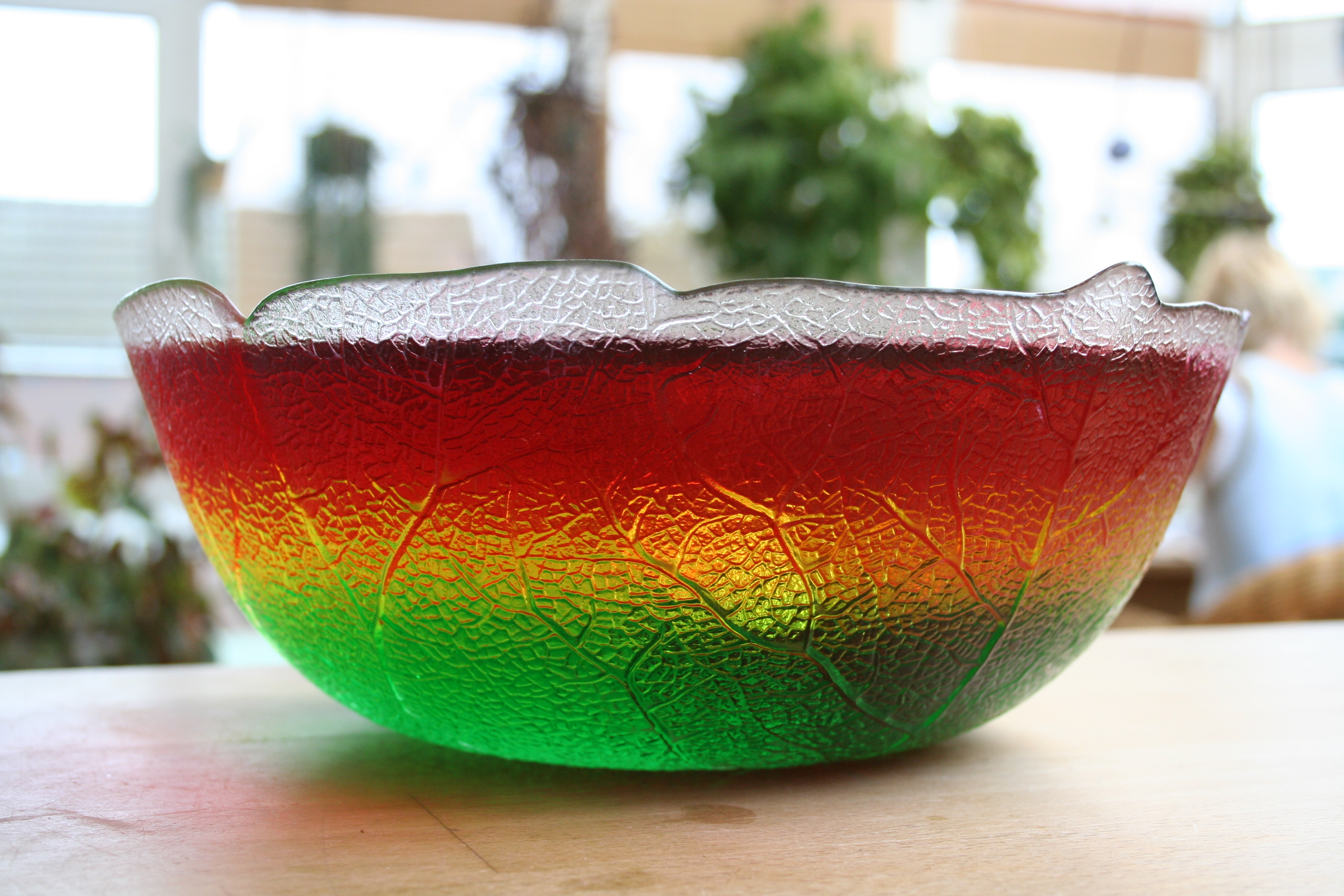 A striped jelly trifle in a glass bowl.